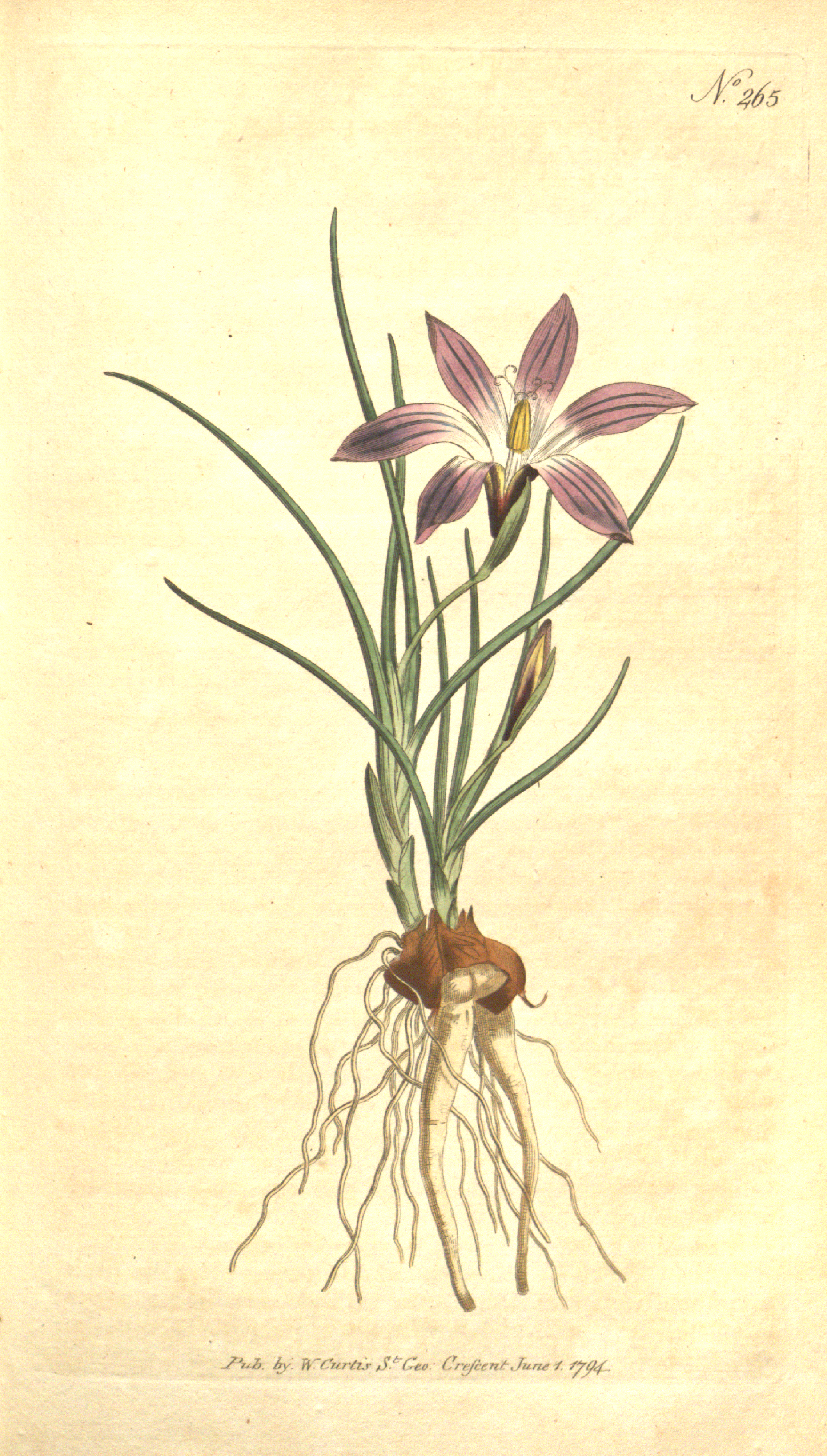 This is a plate from The Botanical Magazine, Volume 8.